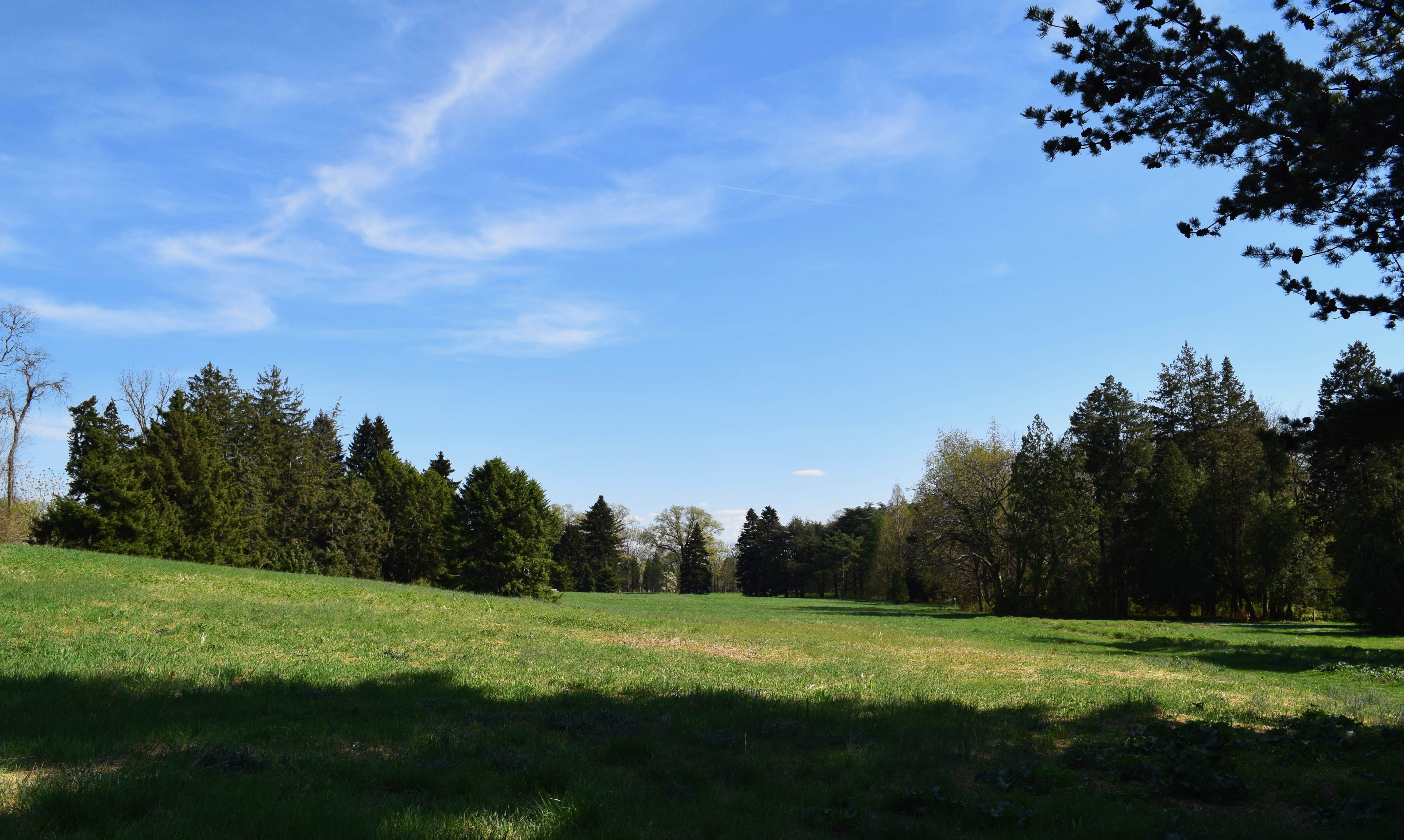 An image of the Ryan Pinetum and meadow at Haverford College in Spring 2017.